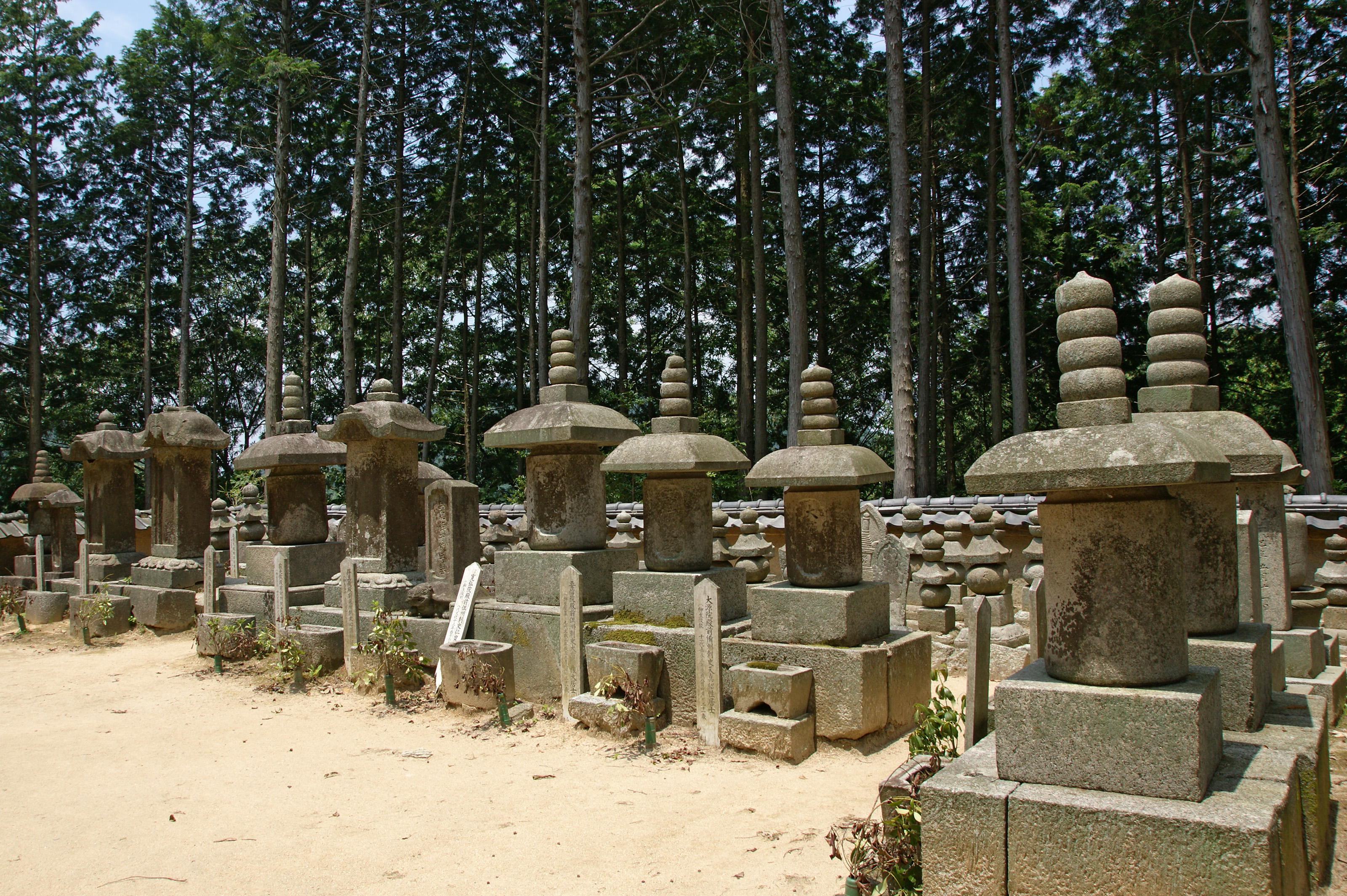 Hotokuji in Nara, Nara prefecture, Japan. Tomb of the Yagyu family.